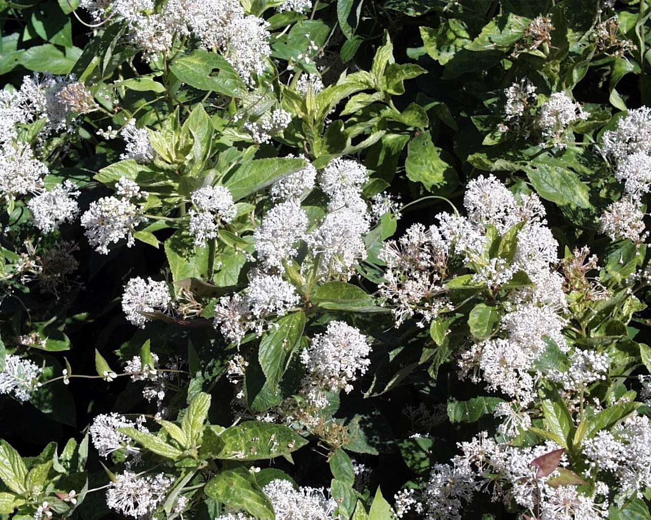 Ceanothus americanus, Sherburne National Wildlife Refuge